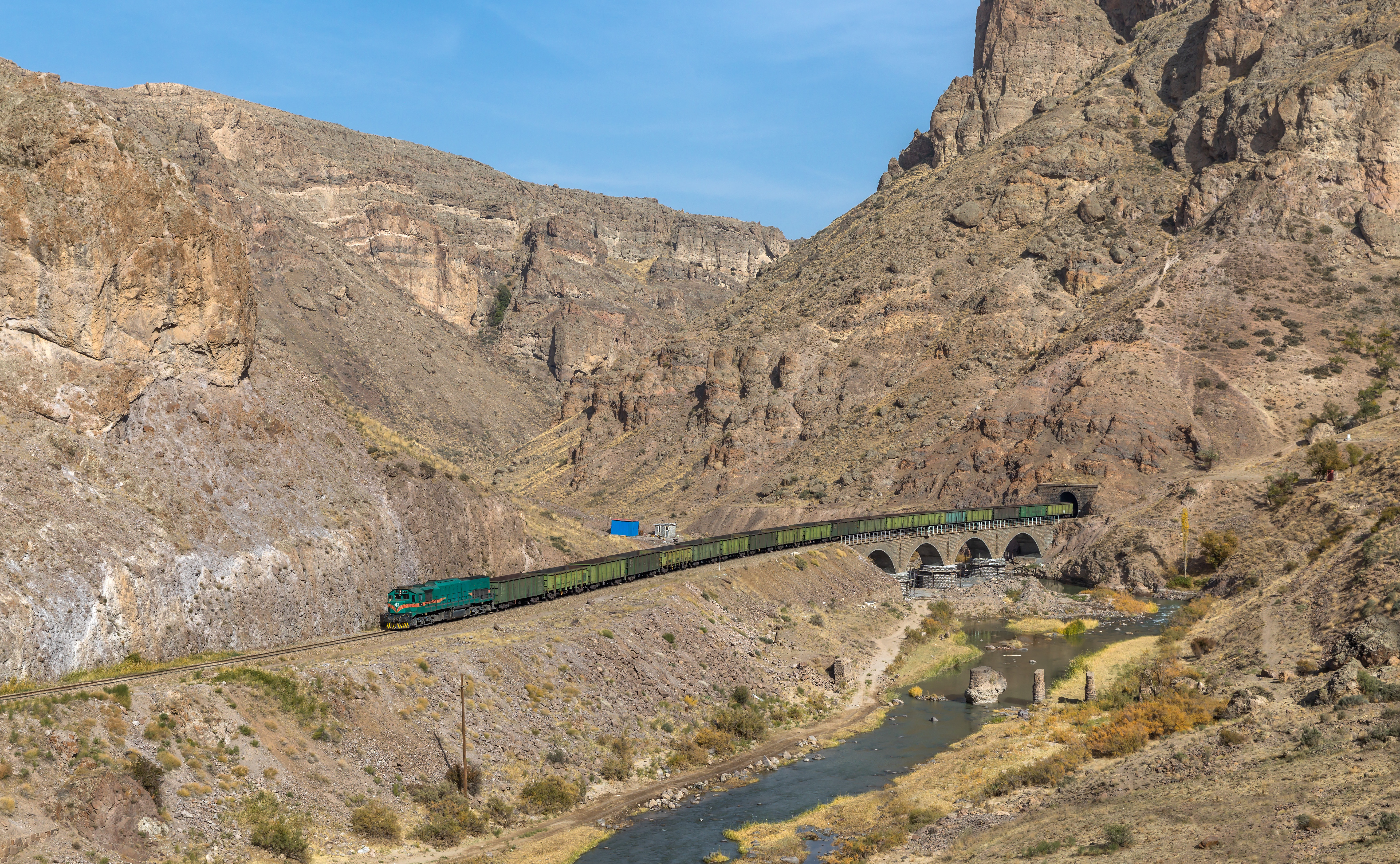 Islamic Republic of Iran Railways's 60-980 (an EMD GT26CW-2) hauls a freight train through the Gharanghu river canyon, between Meyaneh and Maragha, Iran. Digital manipulations: Removed shadow of a mountain.